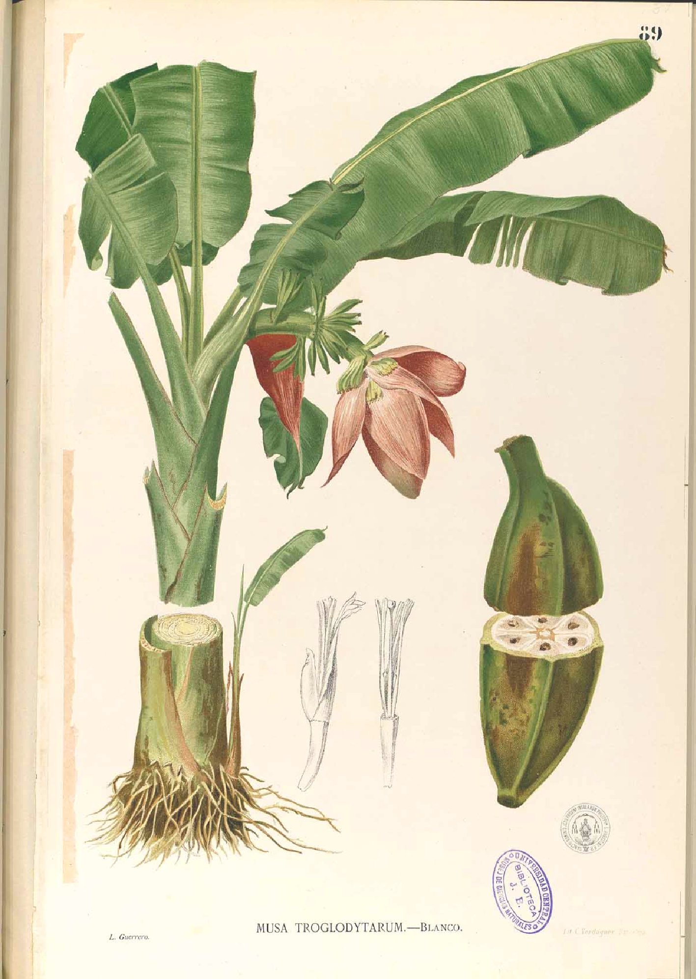 Musa troglodytarum Plate from book